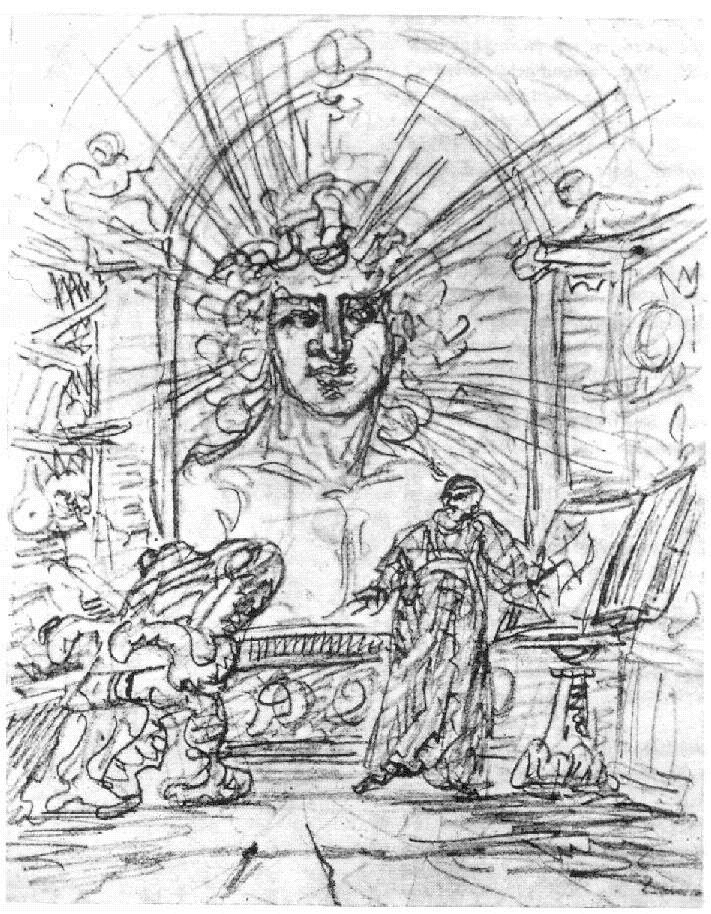 Faust and Erdgeist, illustration by Goethe of a scene in his “Faust”